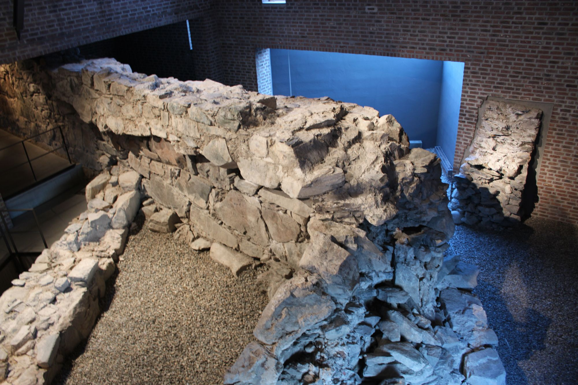 Remains of the old wall in Erkebispegården